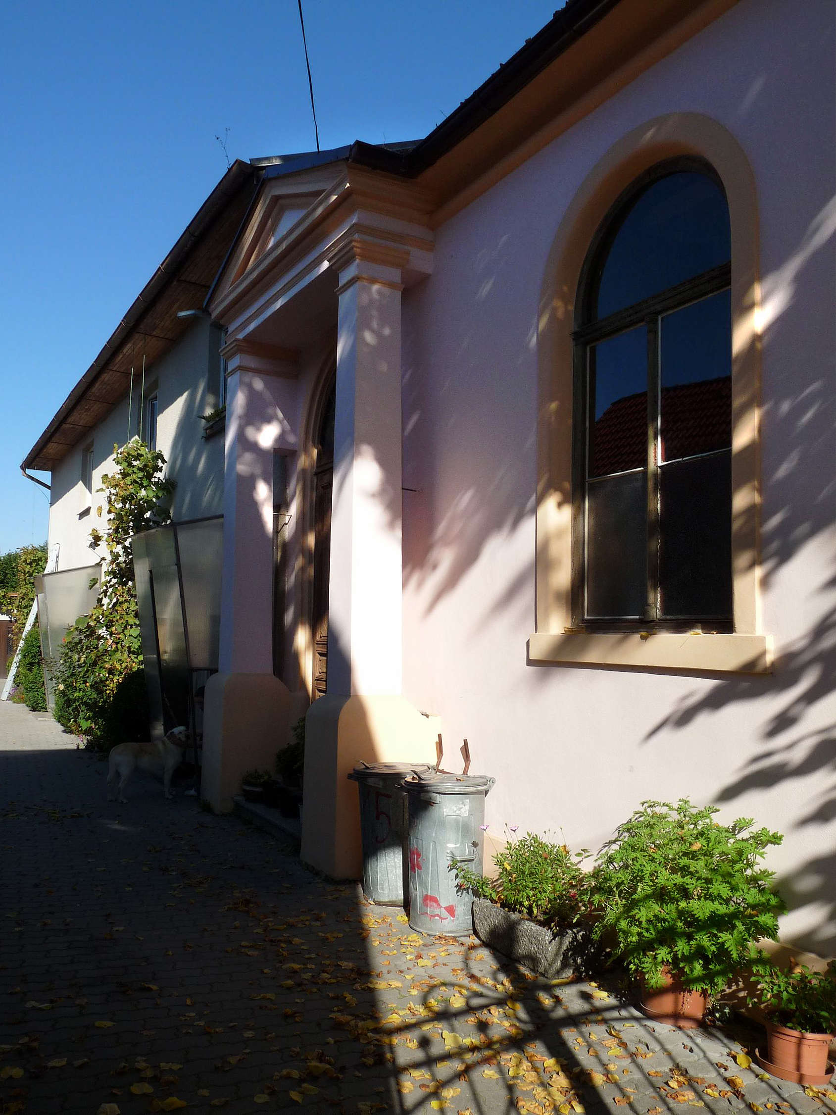 Former synagogue, nowadays a disused building of the Hussite church, in the town of Hluboká nad Vltavou in České Budějovice District, as seen across the local golf course.